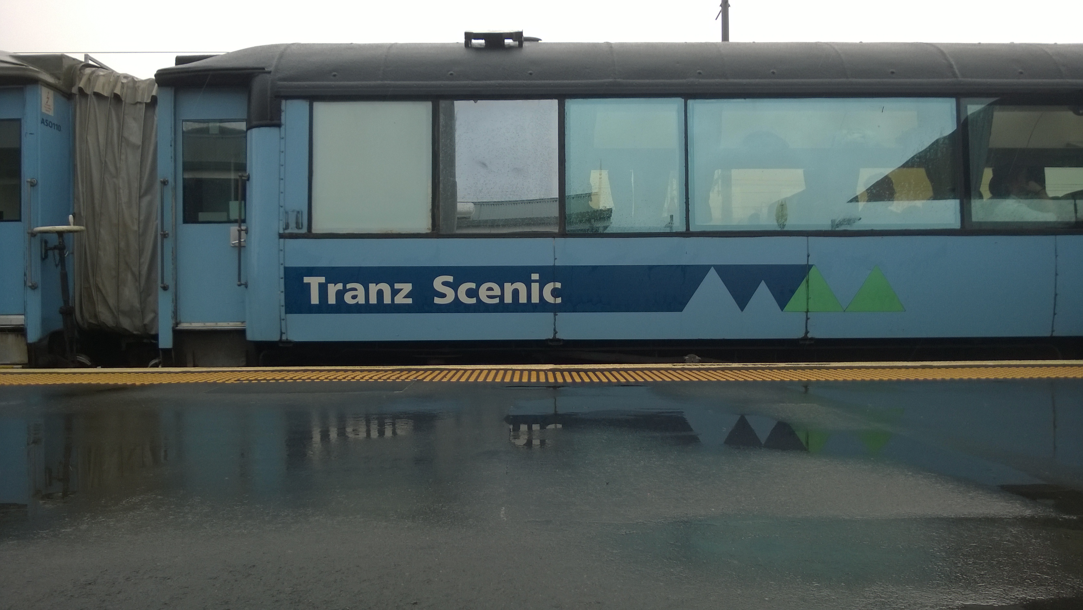 An Unidentified AO class 'Panorama' windowed carriage on the Northern Explorer train (replacing AK Class Carriages). Papakura Station, March 2014.